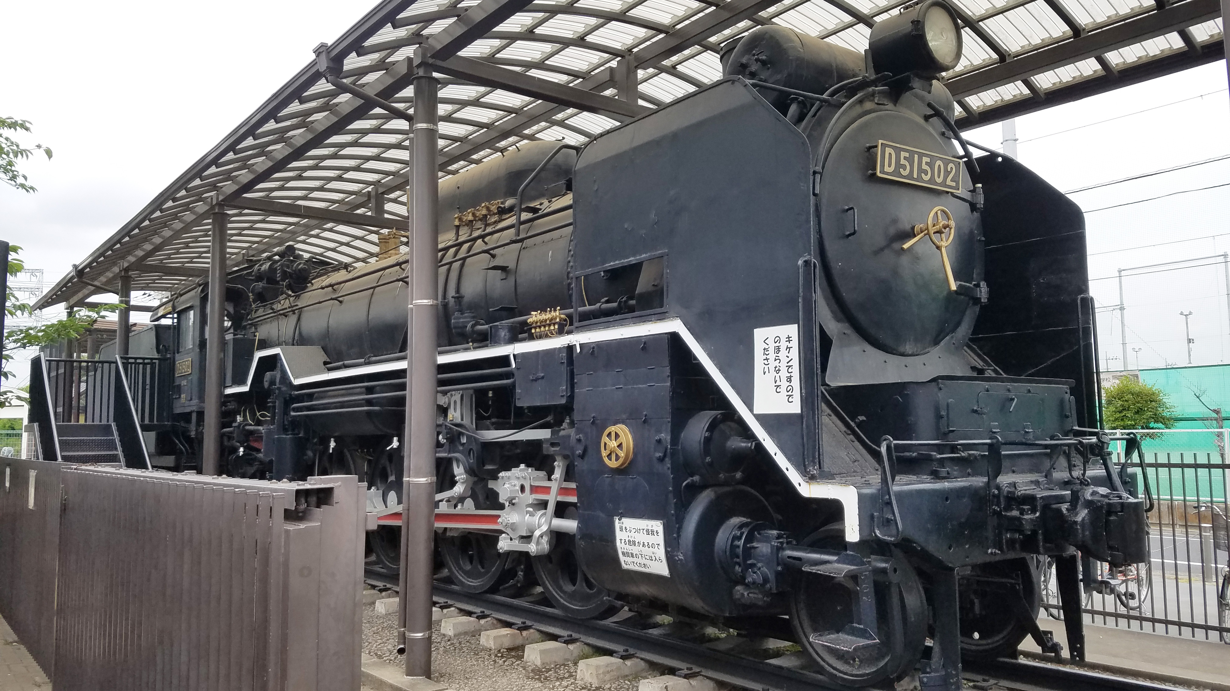 JNR Steam Locomotive Class D51 no.502 (Katsushika, Tokyo, Japan))